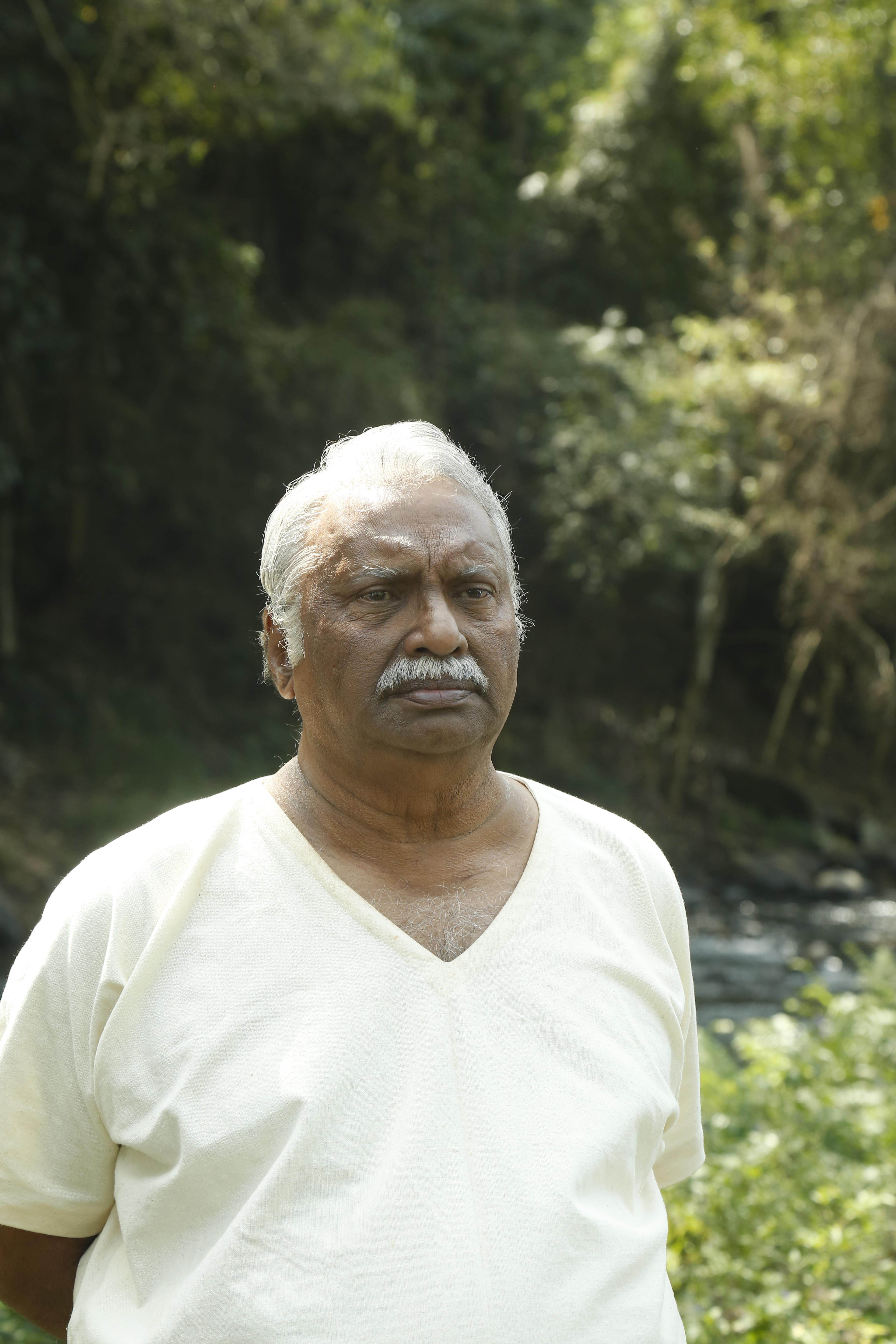 Gokulam Gopalan is the creator of Gokulam Group of Companies